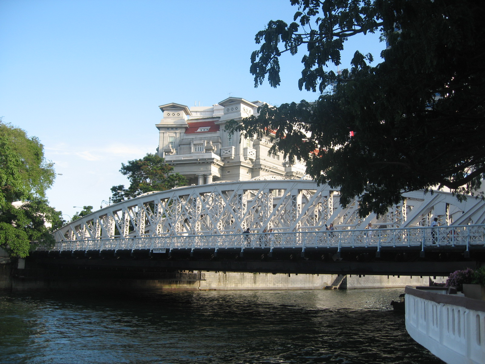 Anderson Bridge.